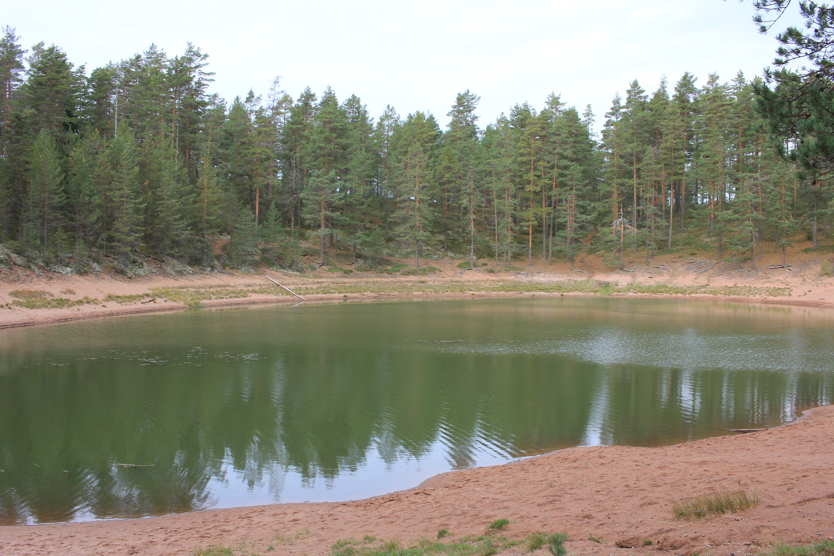 Kankaanjärvi, Virttaa, Alastaro, Loimaa, Finland. - Kankaanjärvi is a 0,5 hectare kettle hole pond or lake.